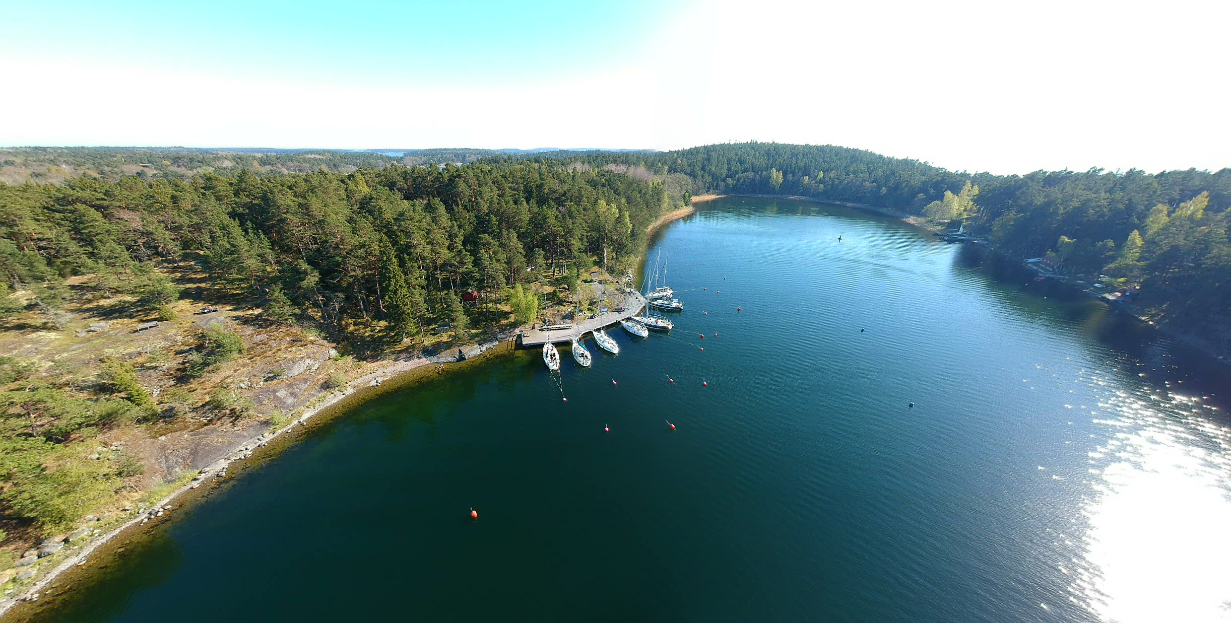 Norrviken close to Runmarö